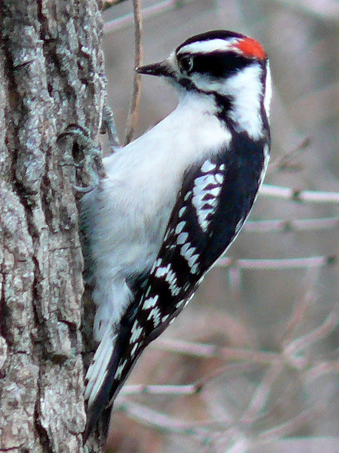 A male Downy Woodpecker (Picoides pubescens). Photo taken with a Panasonic Lumix DMC-FZ50 in Johnston County, North Carolina, USA.